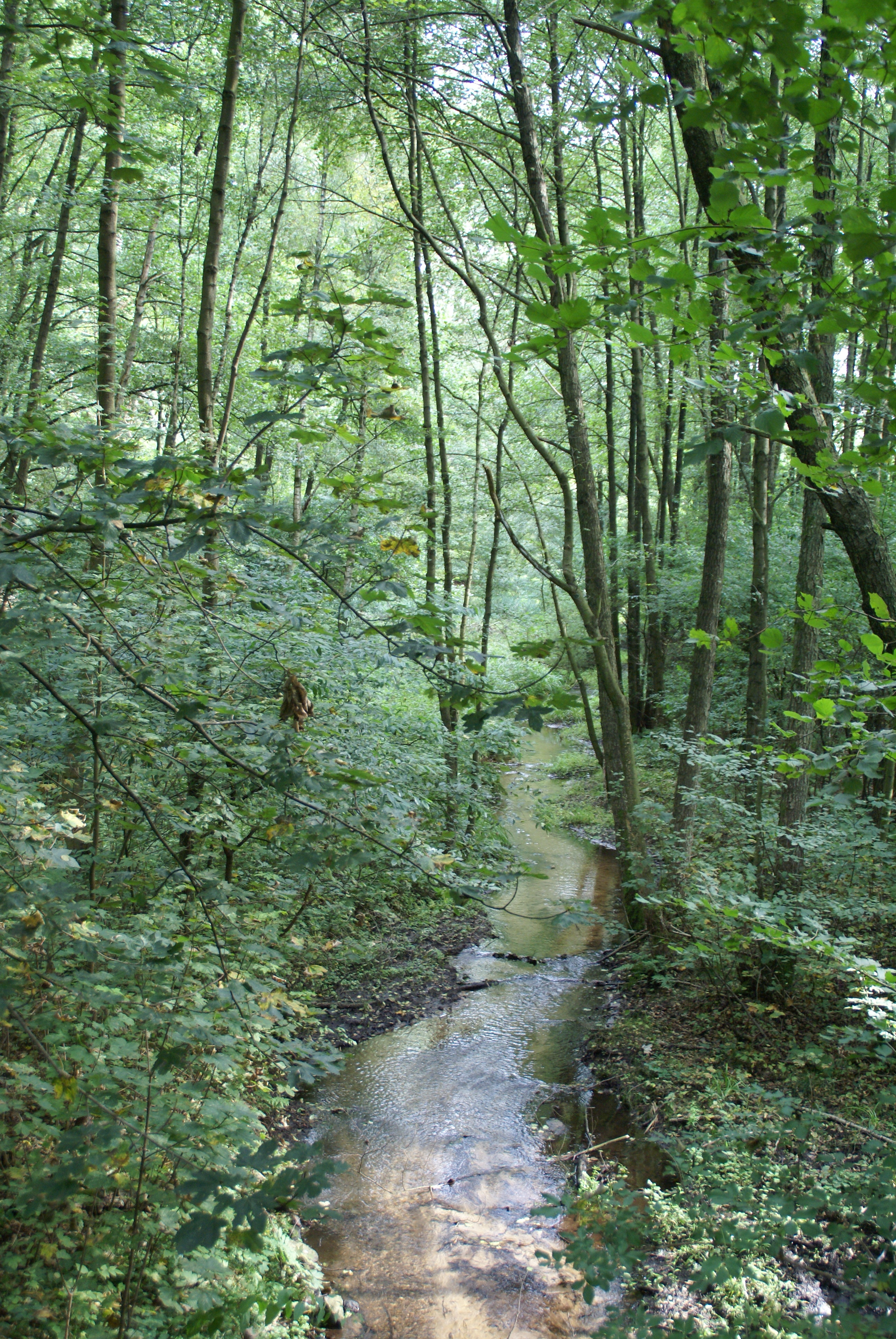 Niederhaverbeck (Germany): The river Haverbeeke